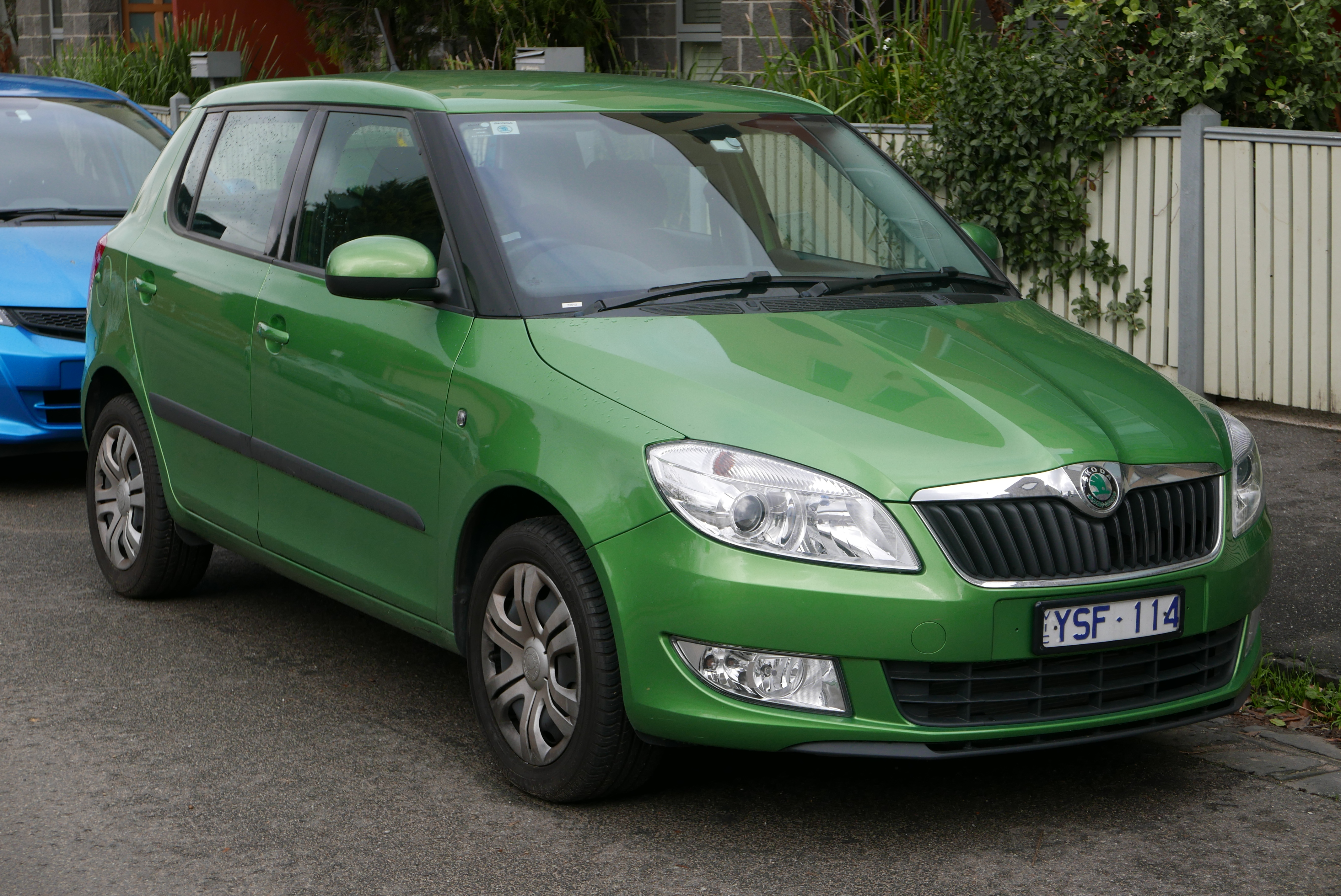 2011 Škoda Fabia (5JF) 77TSI hatchback. Photographed in Northcote, Victoria, Australia. Vehicle registration enquiry resultsJurisdictionVictoriaRegistrationYSF114Chassis codeTMBFN65J4C3044604Engine codeCBZ507551Compliance date2011-11Year of manufacture2011